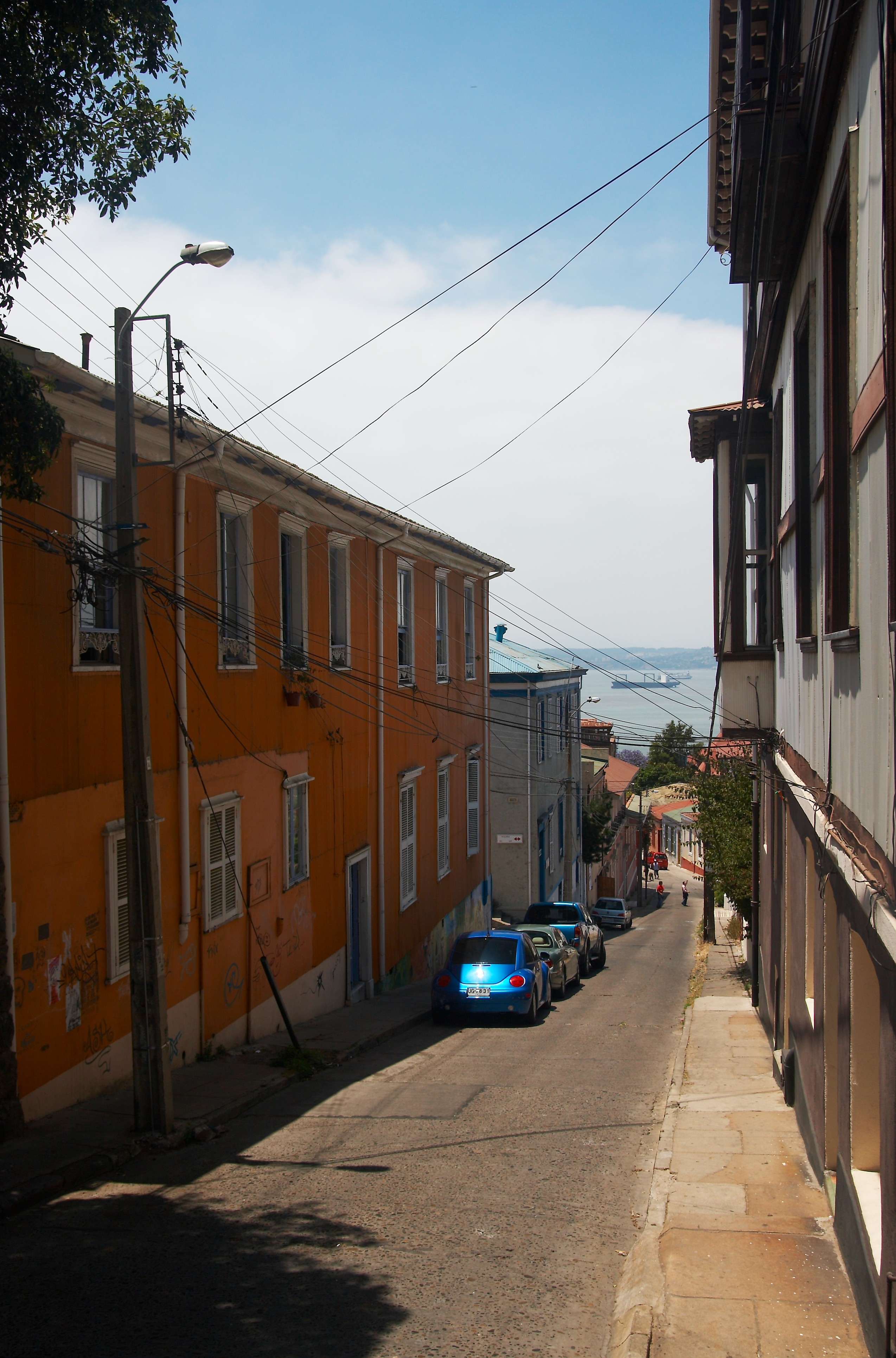 Calle Miramar, Valparaíso, Chile.